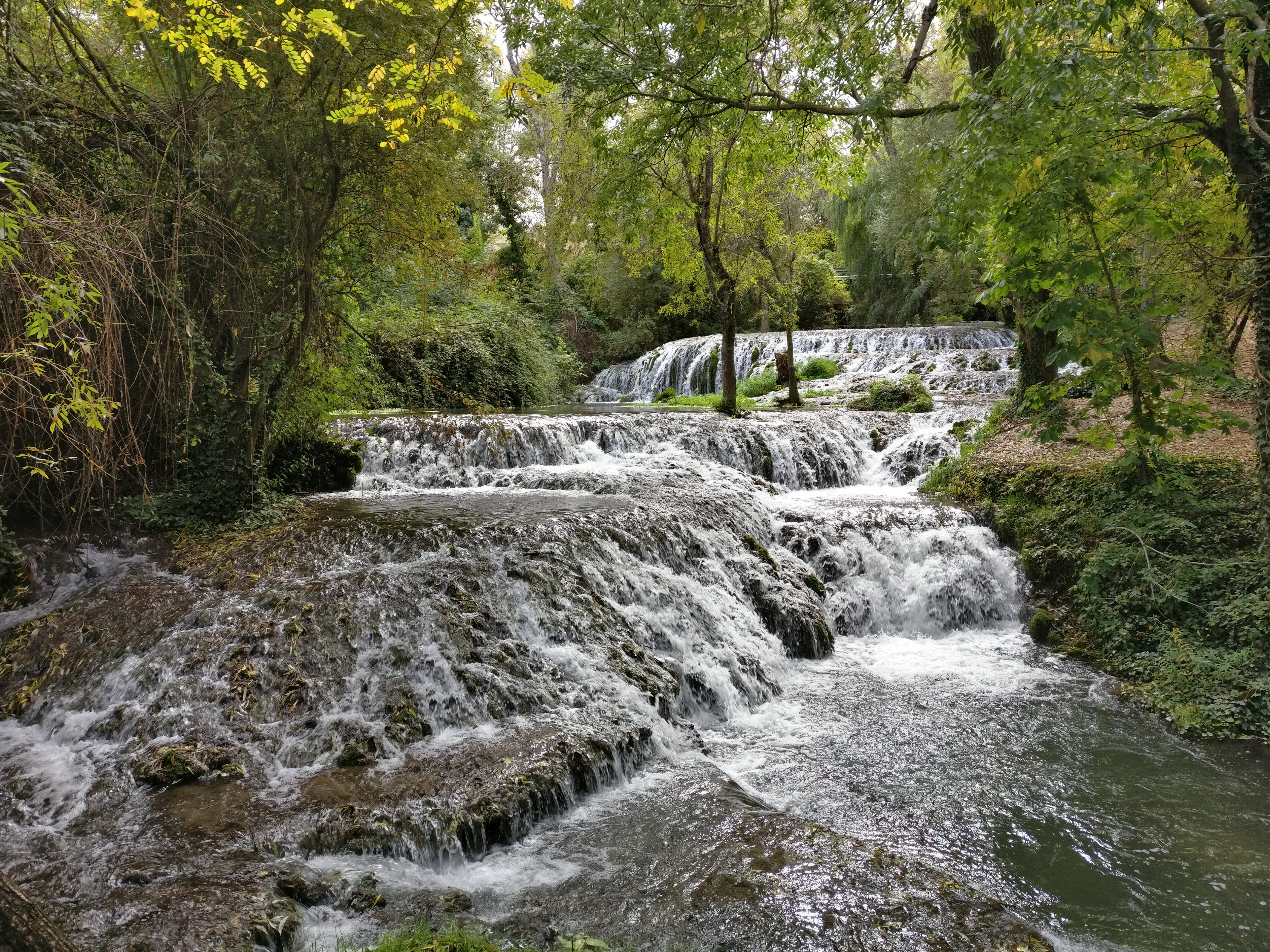 Park in Monasterio de Piedra, Zaragoza Spain